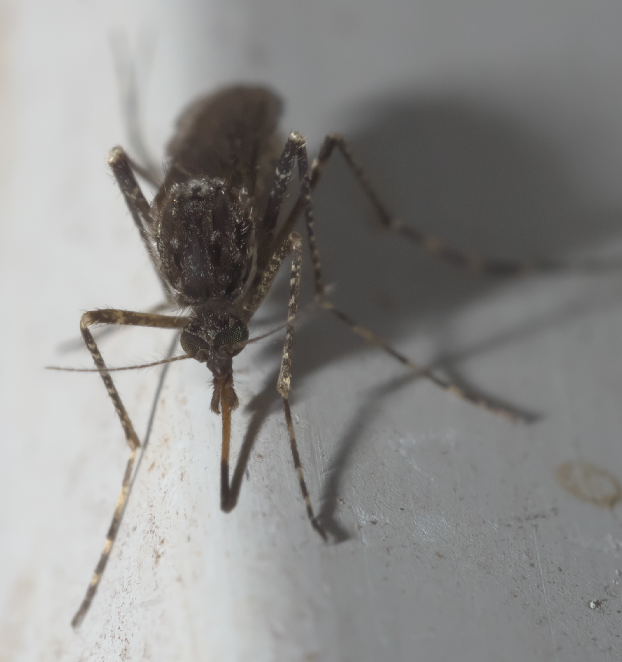 Psorophora columbiae, Dark Ricefield Mosquito, ID Confidence: 90